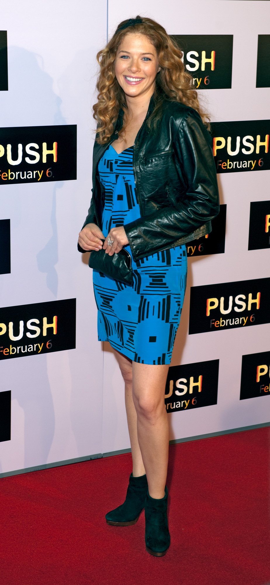 Canadian actress Rachelle Lefevre arrives at the premiere of Push, Mann Theater, Westwood.